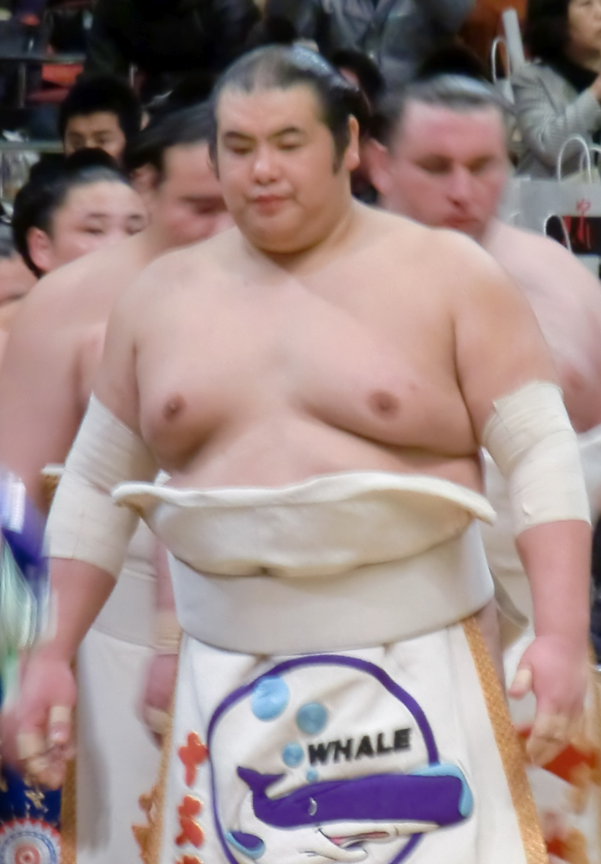 taken at 2010 January tournament